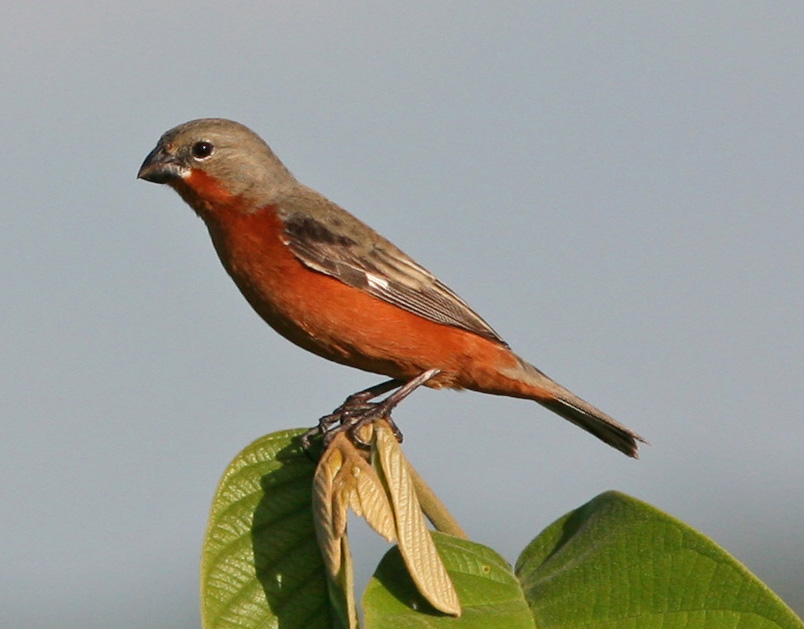 Male Ruddy-breasted Seedeater in Los Llanos, Venezuela